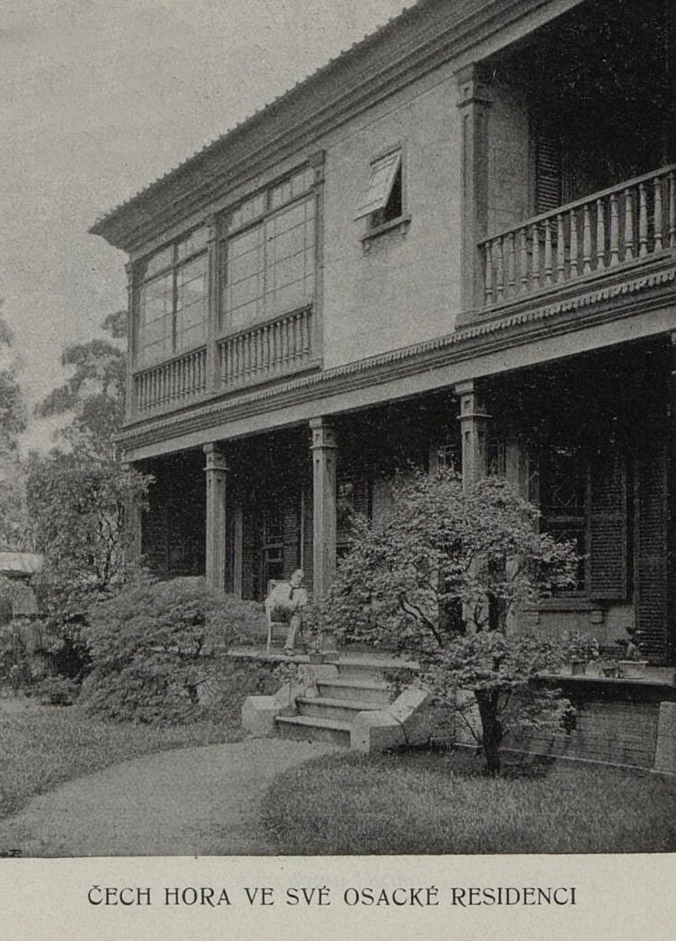 Karel Jan Hora, Czech engineer, diplomat, translator